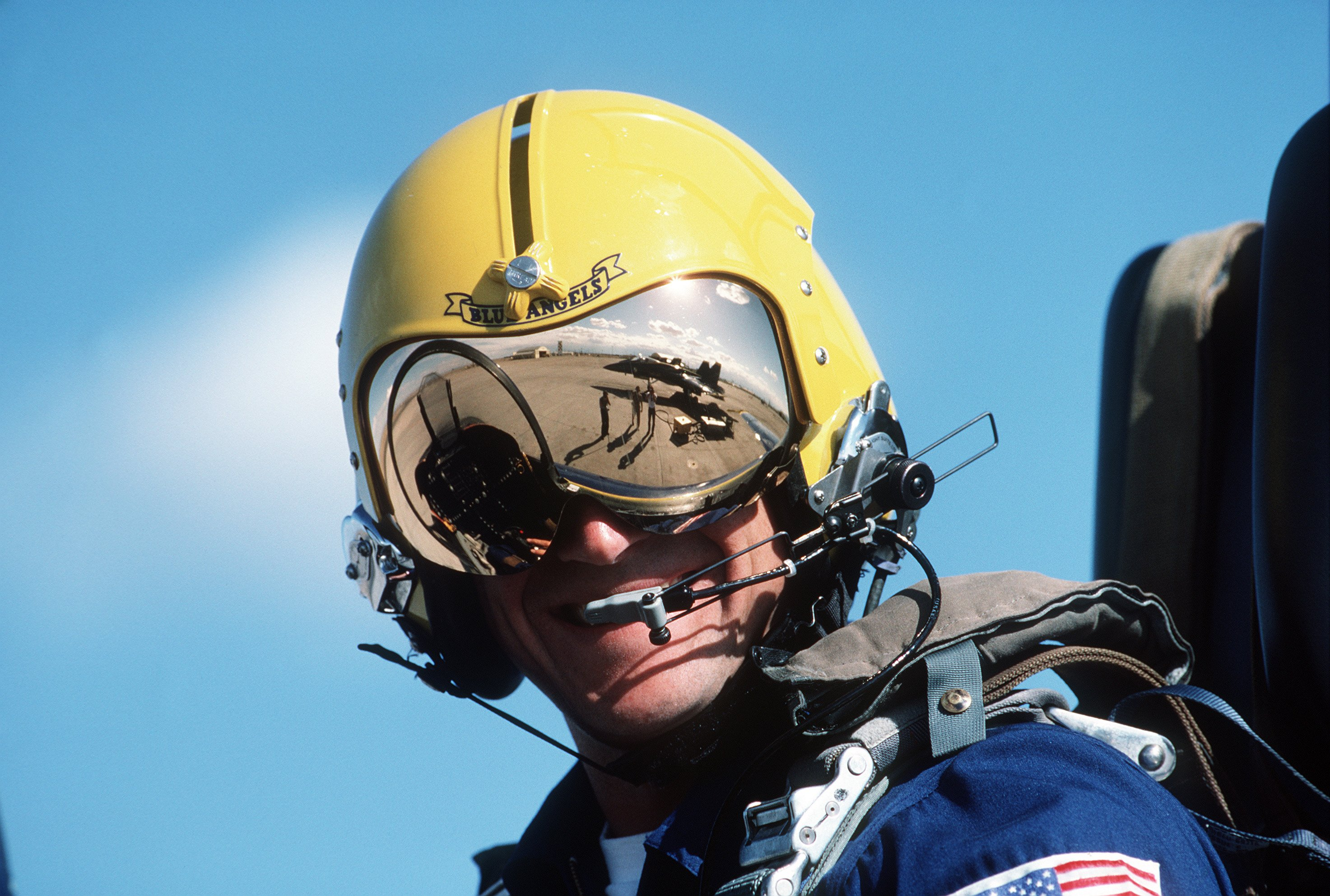 ID: DNST8711206 Service Depicted: Navy A Blue Angels Flight Demonstration Squadron pilot sits in the cockpit of an F/A-18 Hornet aircraft. Location: NAVAL AIR FACILITY, EL CENTRO, CALIFORNIA (CA) UNITED STATES OF AMERICA (USA) Camera Operator: PH1 CHUCK MUSSI Date Shot: 1 Jul 1987